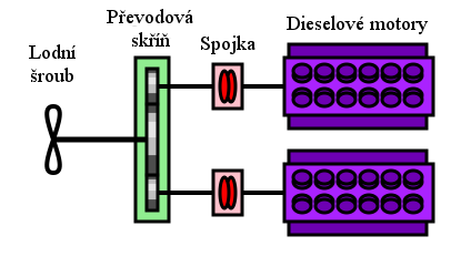 Version of Image:CODAD-diagram.png with Czech labels.